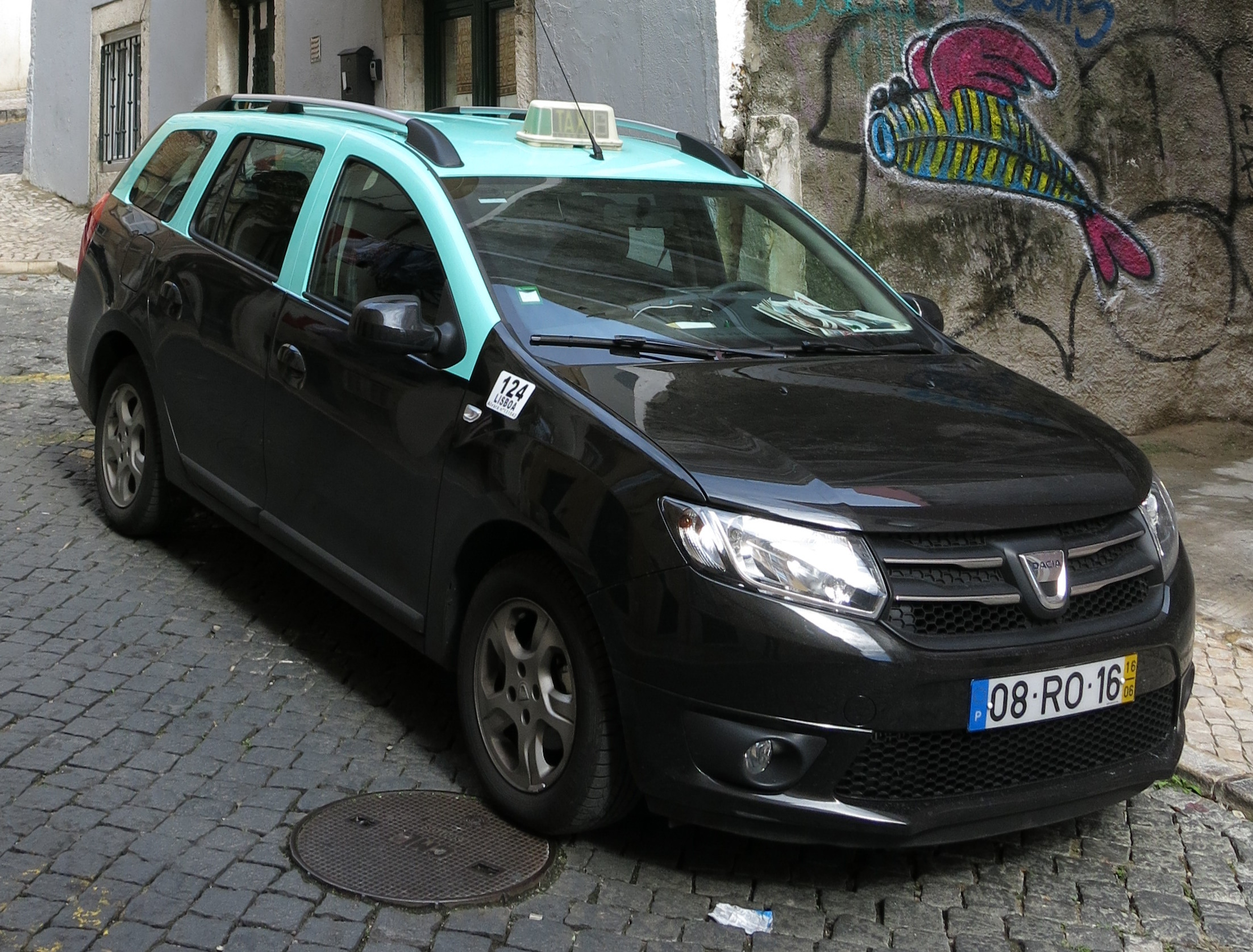 Template:Lissabon